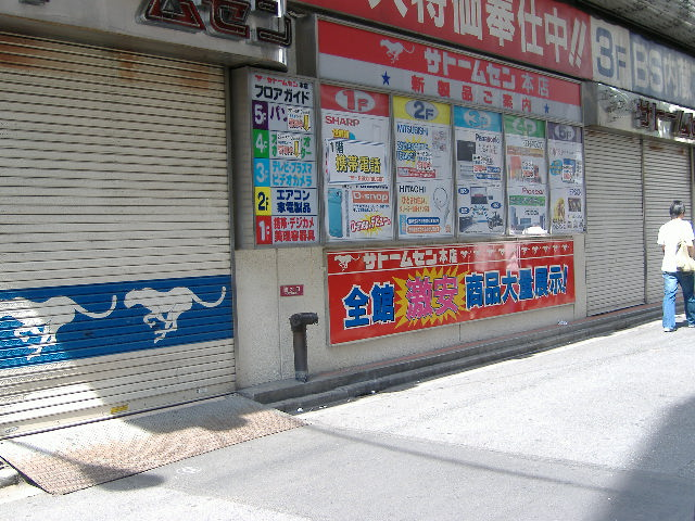 Arrest location of Akihabara massacre suspect